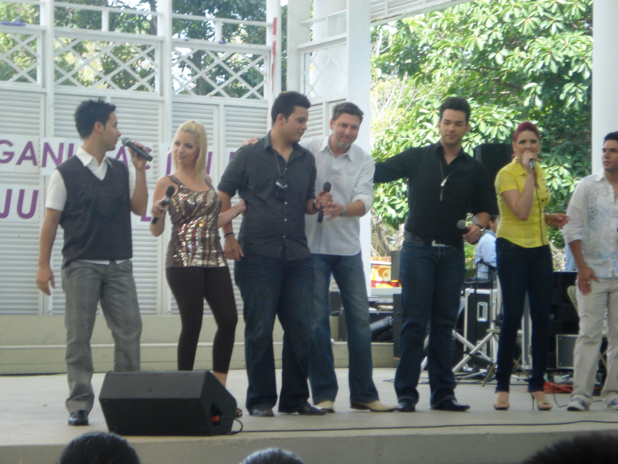 Los Favoritos singing in the "Pabellon de la Paz" at San Juan, Puerto Rico